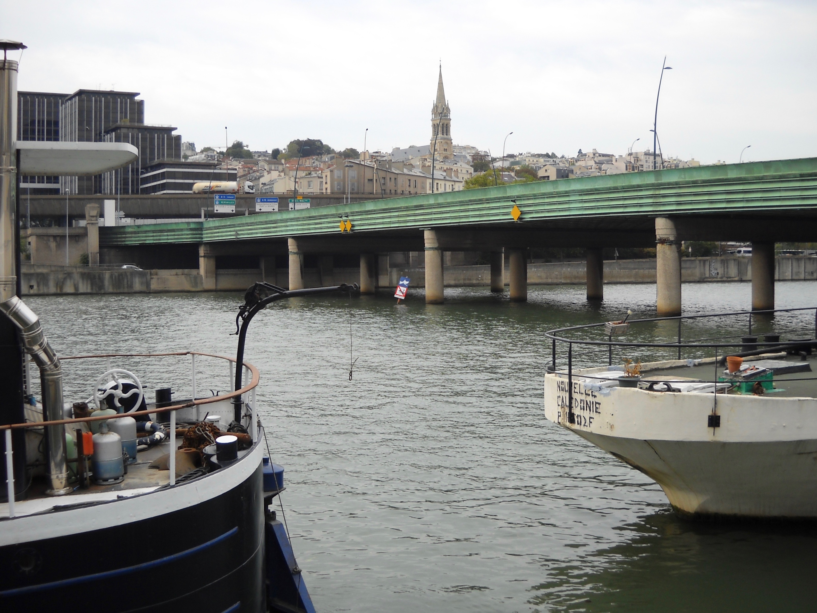 Bridge linking Saint-Cloud to Boulogne-Billancourt over the Seine river, in Hauts-de-Seine, France.